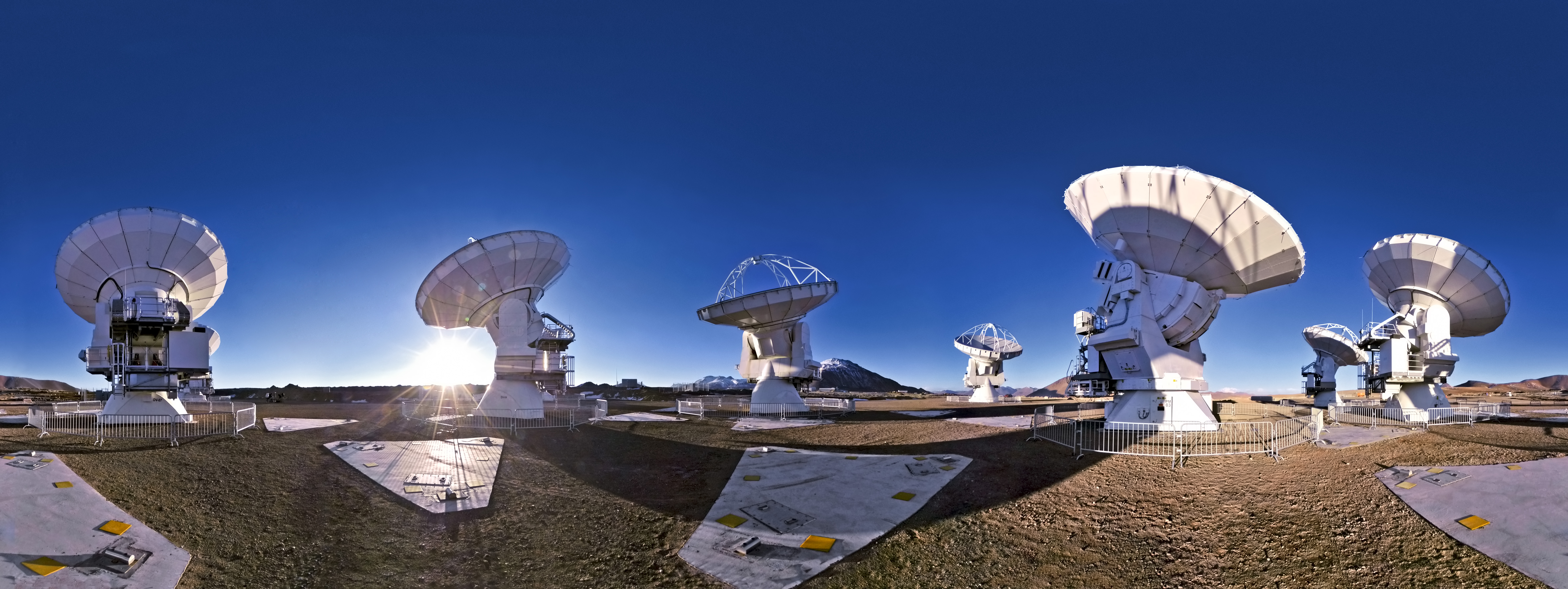 French photographer Serge Brunier — one of ESO’s Photo Ambassadors — has created this seamless 360-degree panorama of the Chajnantor plateau in the Atacama Desert, where the Atacama Large Millimeter/submillimeter Array (ALMA) is under construction. The panorama projection has slightly warped the shapes of the ALMA antennas, but it still gives a sense of what it would be like to stand in the middle of this impressive new observatory. The 360-degree view also demonstrates the complete isolation of the Chajnantor plateau; at an altitude of 5000 metres, the backdrop is almost featureless, except for a few mountain peaks and hilltops. Although constructing such an ambitious telescope project in a remote and harsh environment is challenging, the high altitude location is perfect for submillimetre astronomy. That’s because water vapour in the atmosphere absorbs this type of radiation, but the air is much drier at high altitude sites such as Chajnantor. ALMA started its first scientific observations on 30 September 2011 with a partial array of antennas. When the observatory is completed, the impressive sight of fifty 12-metre antennas — as well as a smaller array of four 12-metre and twelve 7-metre antennas, known as the Atacama Compact Array (ACA) — will make the isolated landscape seem slightly less empty. In the meantime, photographs like this one are documenting the progress of a new world-class telescope facility. ALMA, an international astronomy facility, is a partnership of Europe, North America and East Asia in cooperation with the Republic of Chile. ALMA construction and operations are led on behalf of Europe by ESO, on behalf of North America by the National Radio Astronomy Observatory (NRAO), and on behalf of East Asia by the National Astronomical Observatory of Japan (NAOJ). The Joint ALMA Observatory (JAO) provides the unified leadership and management of the construction, commissioning and operation of ALMA.